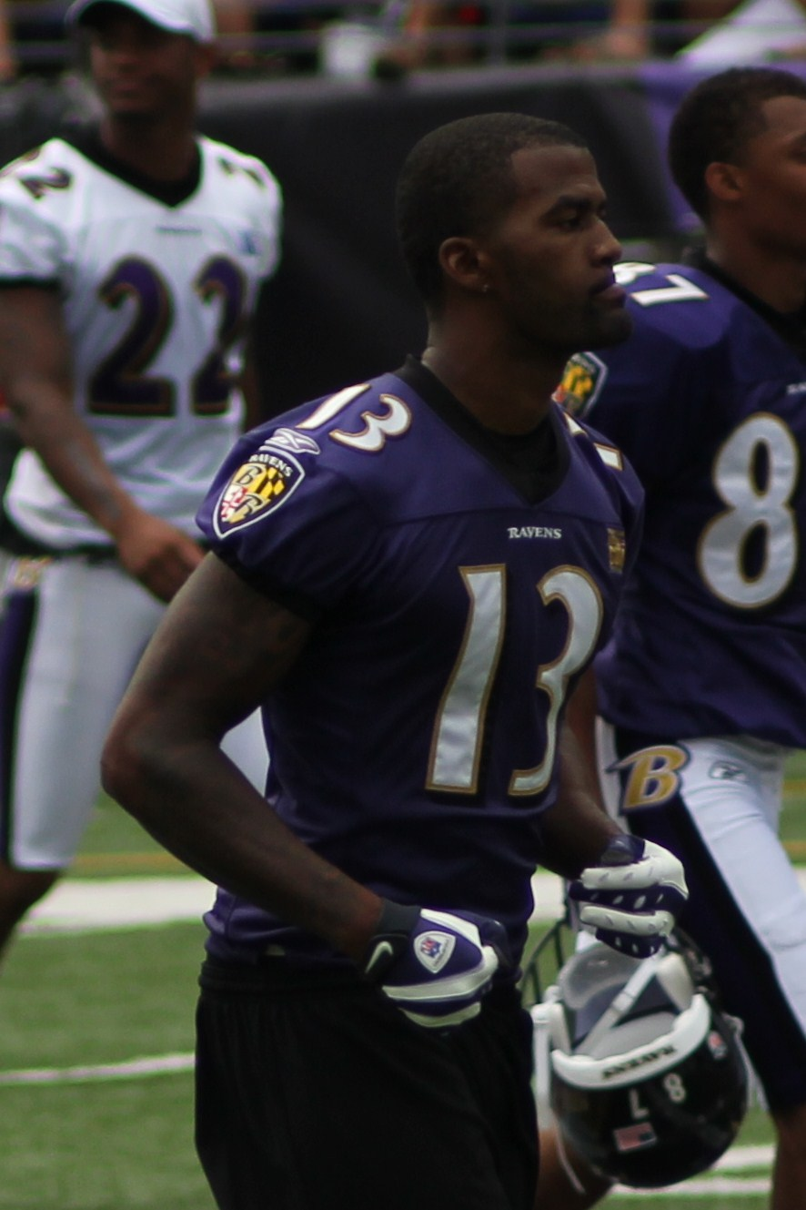 James Hardy at M&T Bank stadium Aug 2011